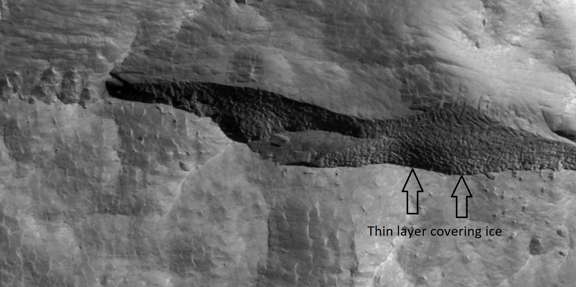 Close view of depression that contains layers of ice under only 1-2 meters of covering debris, as seen by HiRISE under HiWish program Location is the Diacria quadrangle. Arrows indicate thin covering over ice layers.